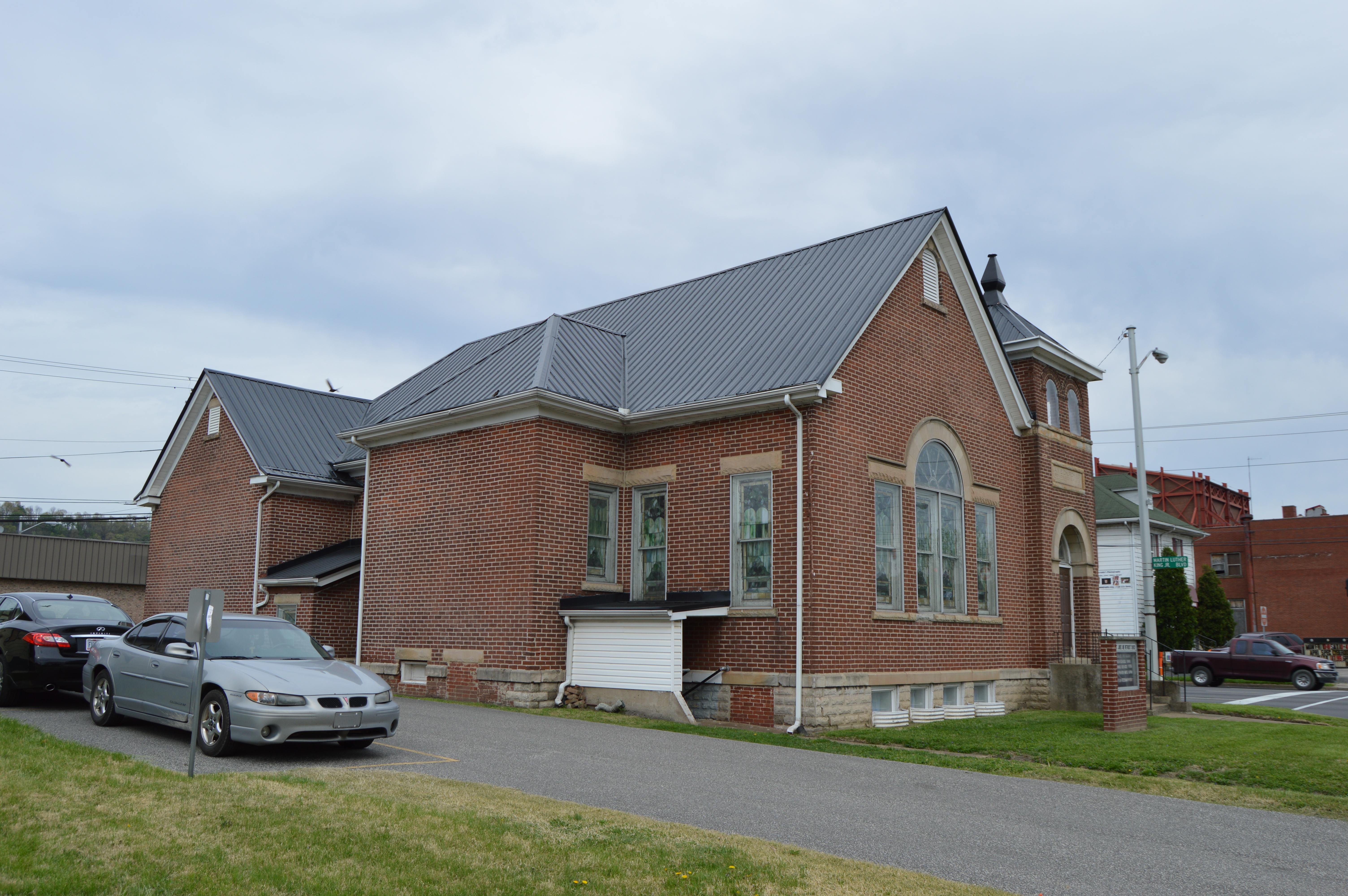 Western side and front of St. James AME Church, located at 329 Twelfth Street (U.S. Route 60) in Ashland, Kentucky, United States. Built in 1912, it is listed on the National Register of Historic Places.